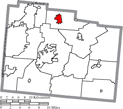 Map of the municipal and township boundaries of Greene County, Ohio, United States, as of the 2000 census, with the location of the village of Yellow Springs highlighted. Township borders are shown only in unincorporated areas in order to differentiate incorporated and unincorporated areas more clearly.